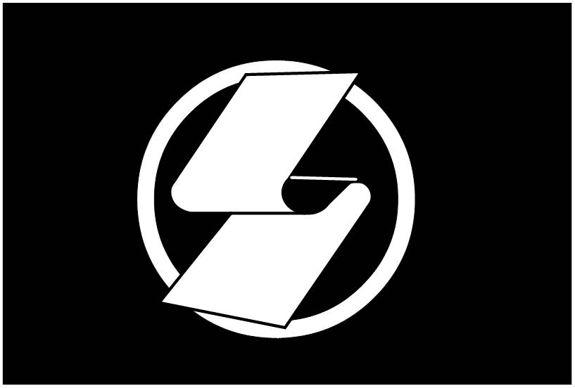 Description logo